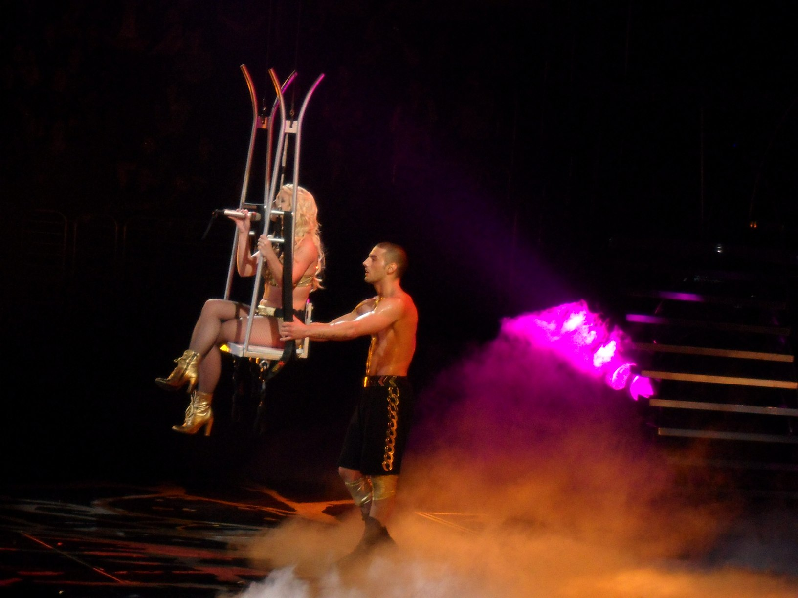 Spears and her dancer performing "Don't Let Me Be the Last to Know".